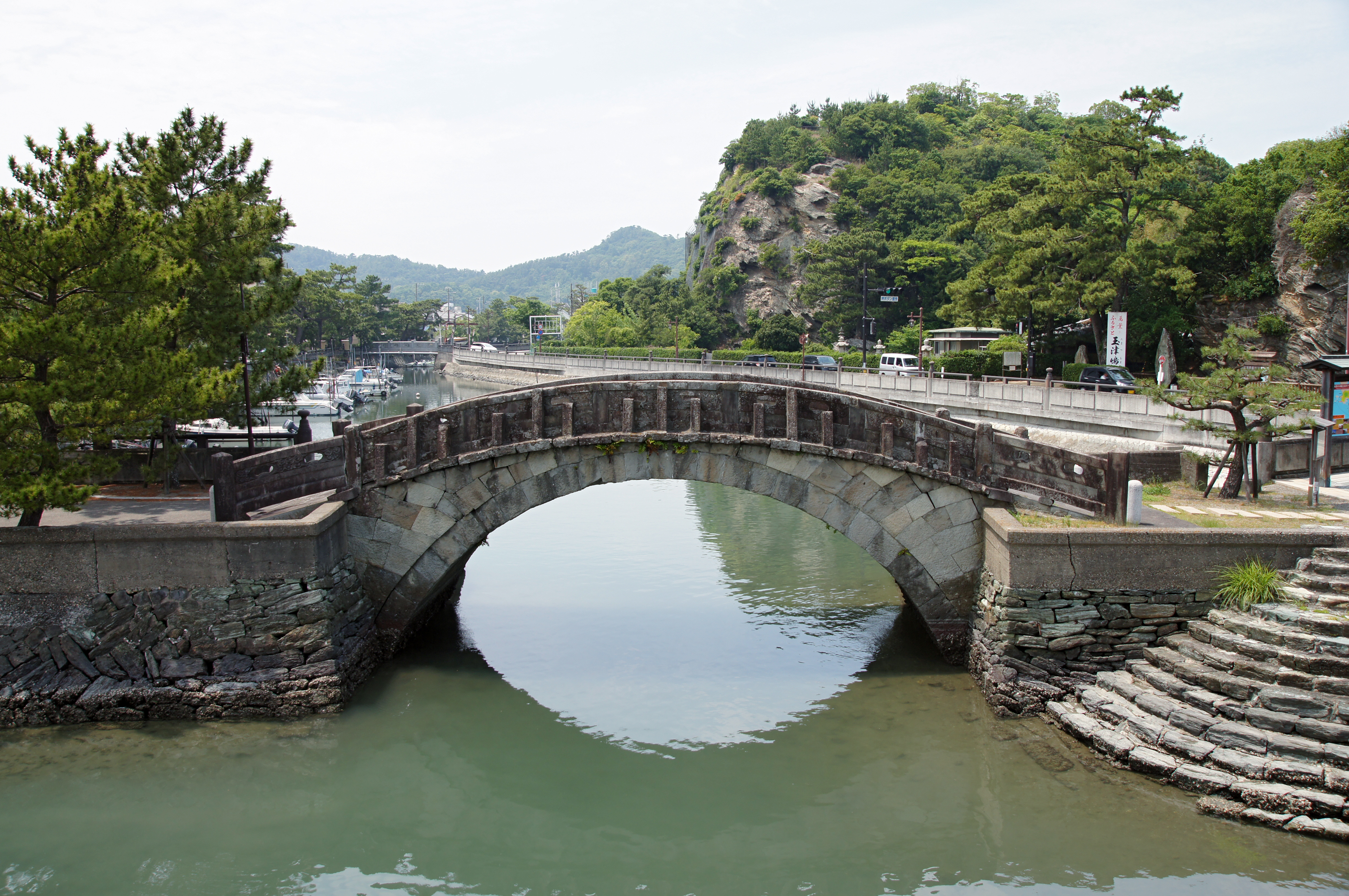 Furobashi in Wakanoura, Wakayama, Wakayama prefecture, Japan